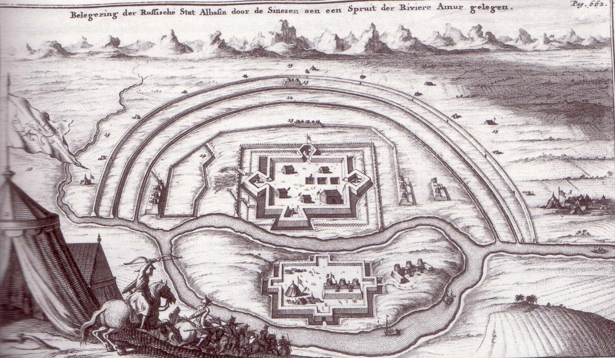 The Russian fortress Albazin stormed by Manchu/Chinese Qing forces.